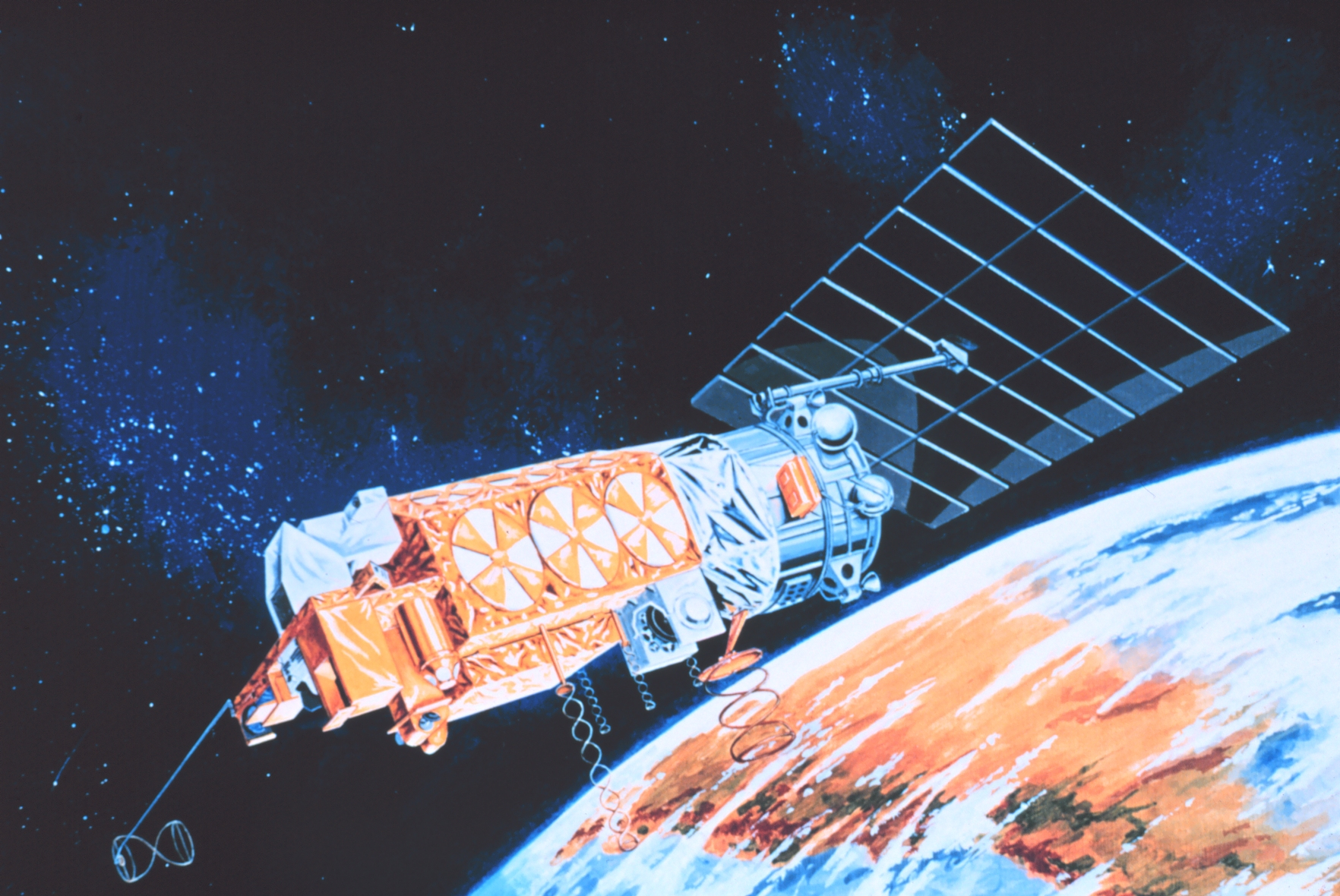 TIROS-N satellite